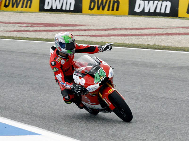 Miguel Oliveira 2011 Estoril